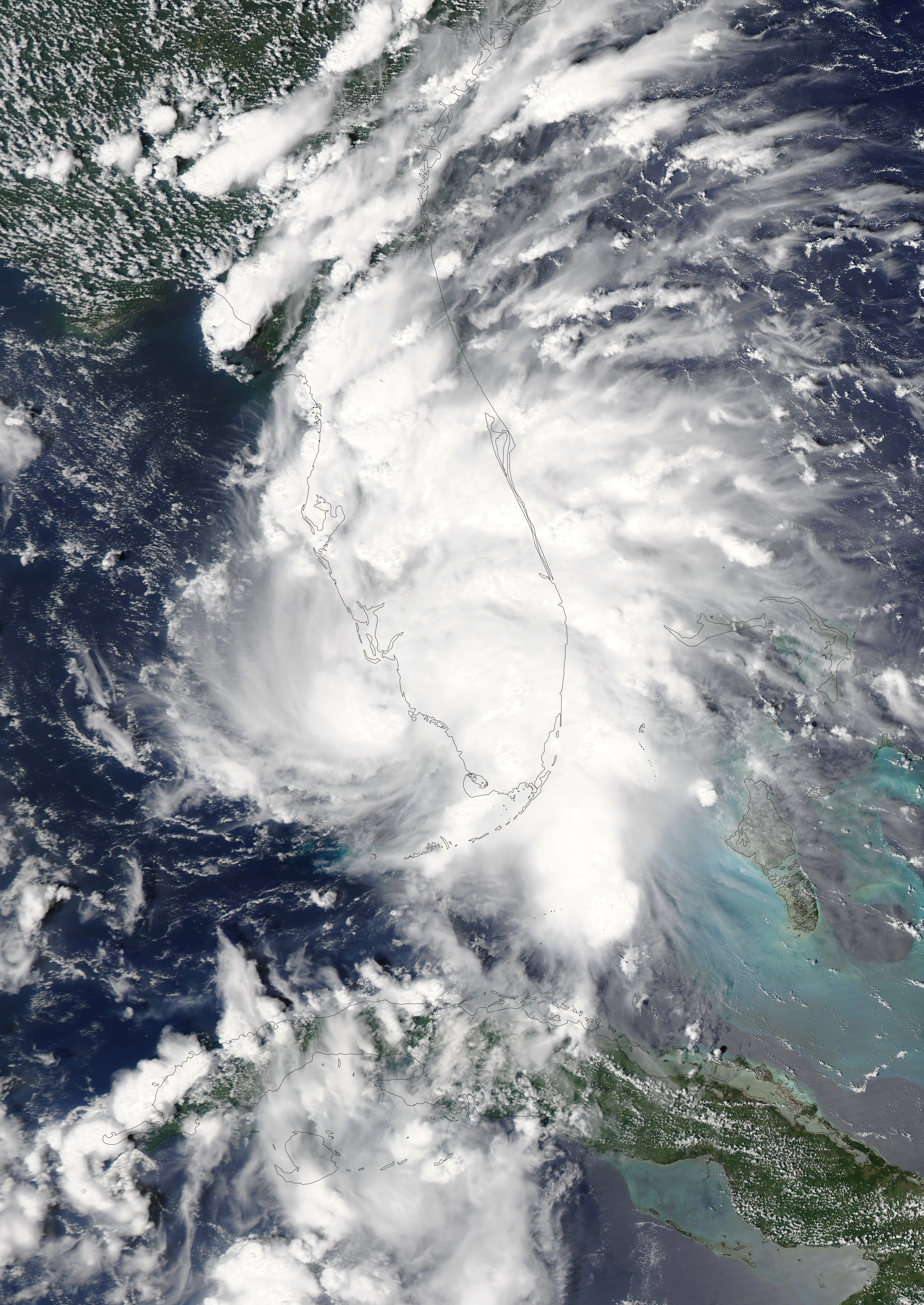 Aqua MODIS visible satellite imagery of Tropical Storm Gordon at 18:23Z on September 3, 2018.